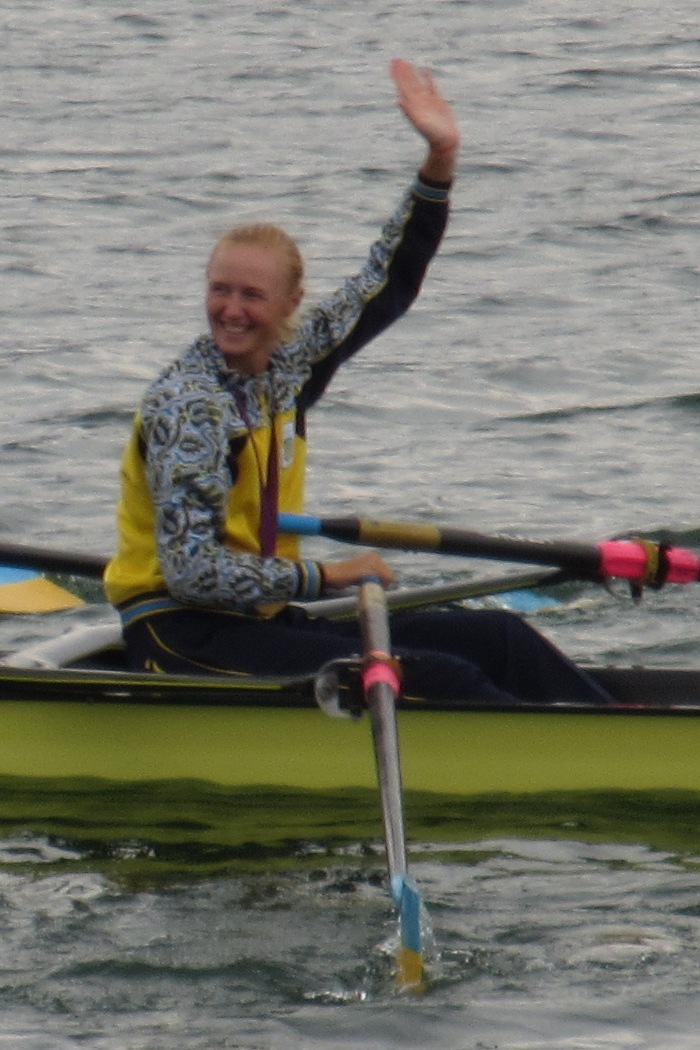 Anastasiia Kozhenkova, Olympic champion from Ukraine